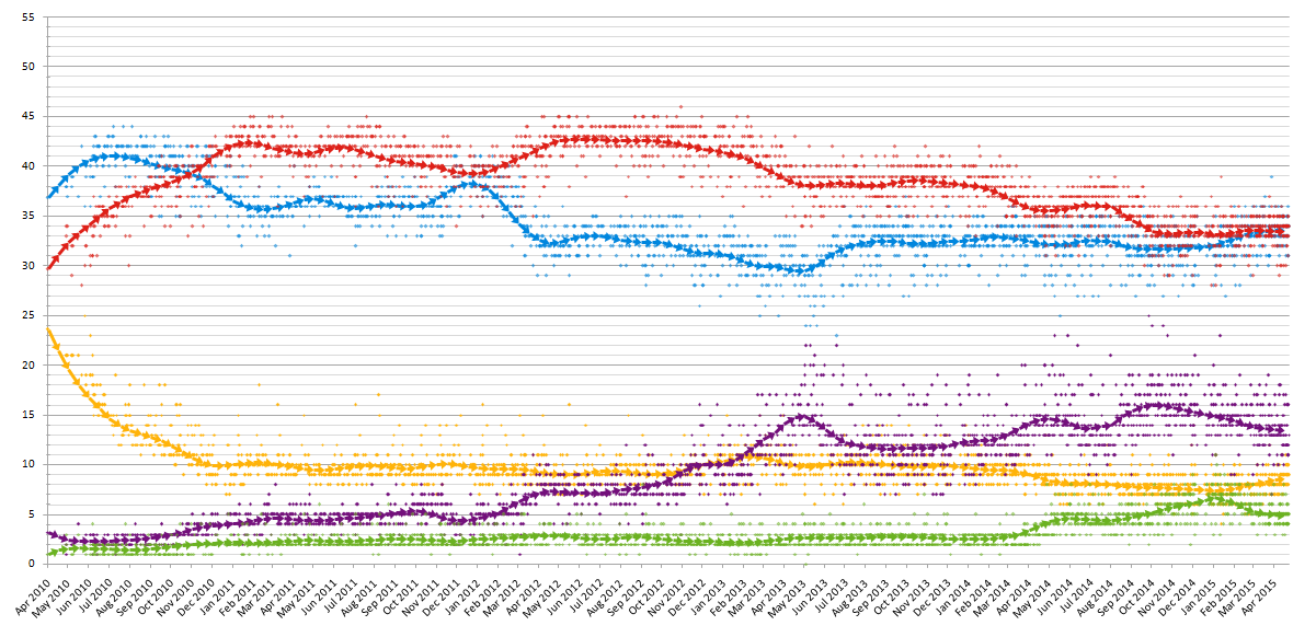 Graph of polling leading up to the United Kingdom general election, 2015 showing average trend line. Key: BLUE; Conservative. RED; Labour. PURPLE; UK Independence Party (UKIP) YELLOW; Liberal Democrats GREEN; Green Party